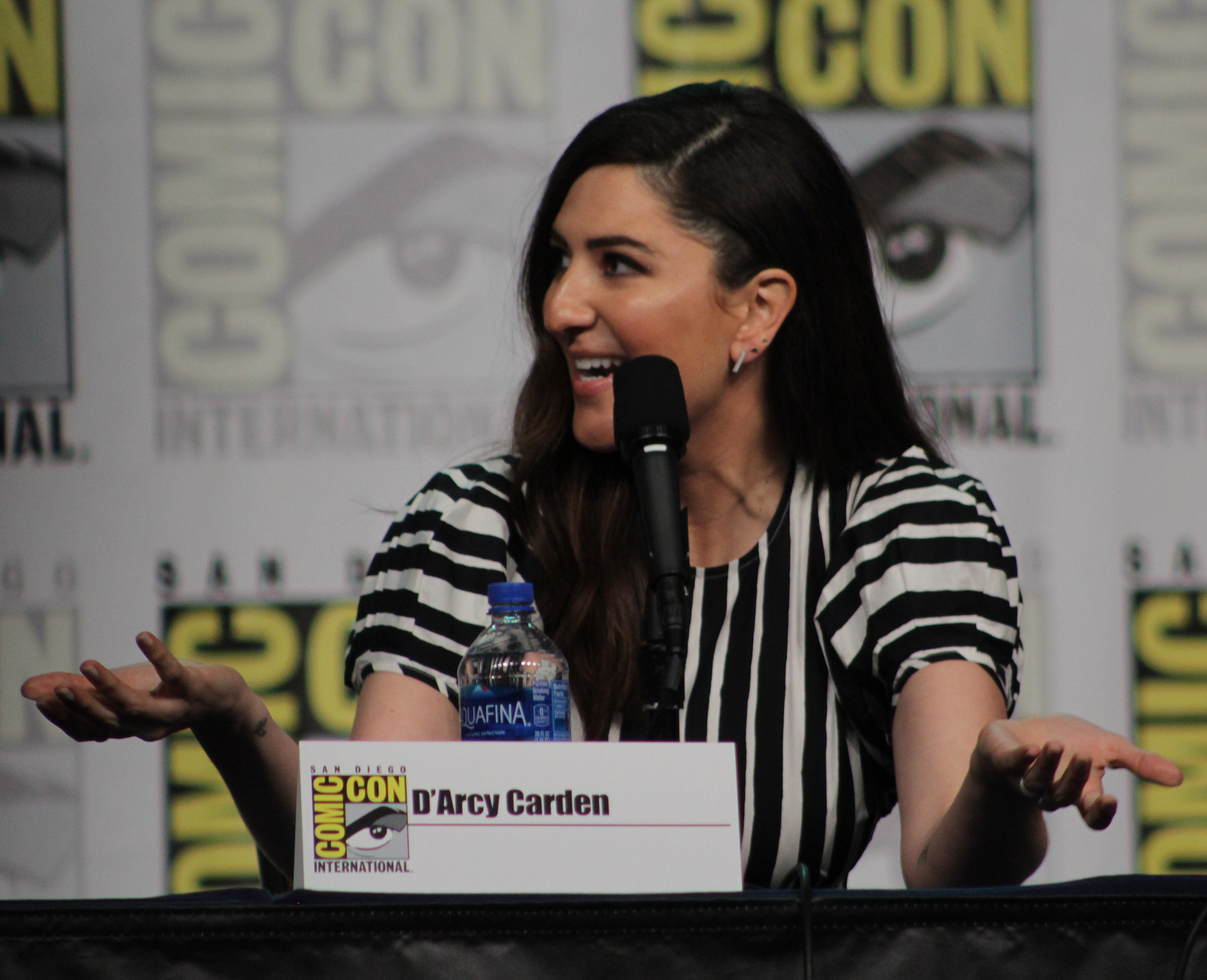 Cast and crew of NBC's 'The Good Place' discuss the show in the Indigo Ballroom at the San Diego Hilton Bayfront Hotel during San Diego Comic Con on July 20, 2019. Taken by Dominique Redfearn.